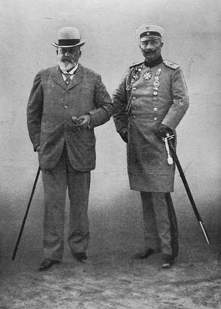 King Edward VII with Kaiser Wilhelm II in Berlin, circa 1908.